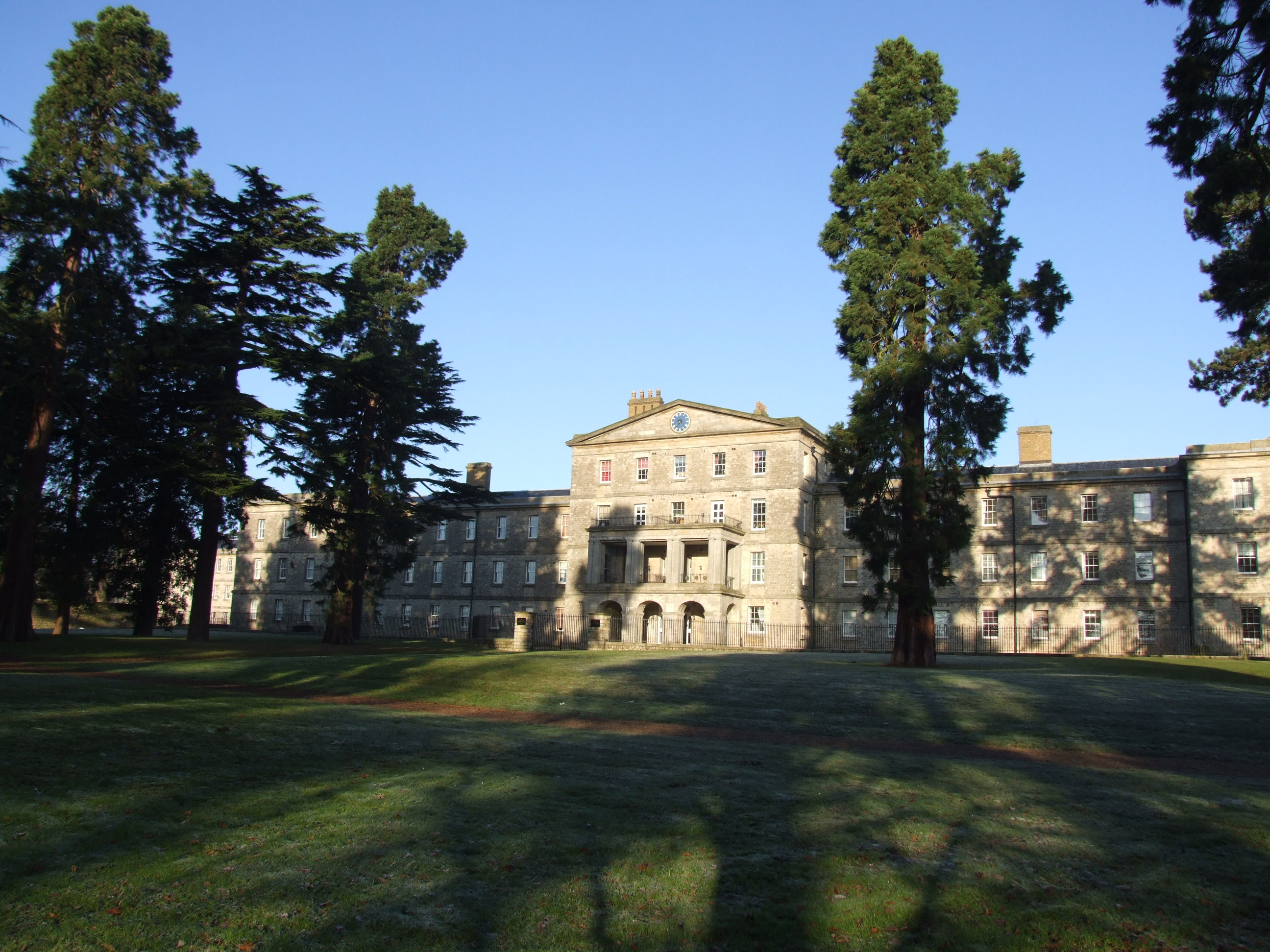 Modern day photograph of St Andrew's House - part of the former Oakwood Hospital at Maidstone.